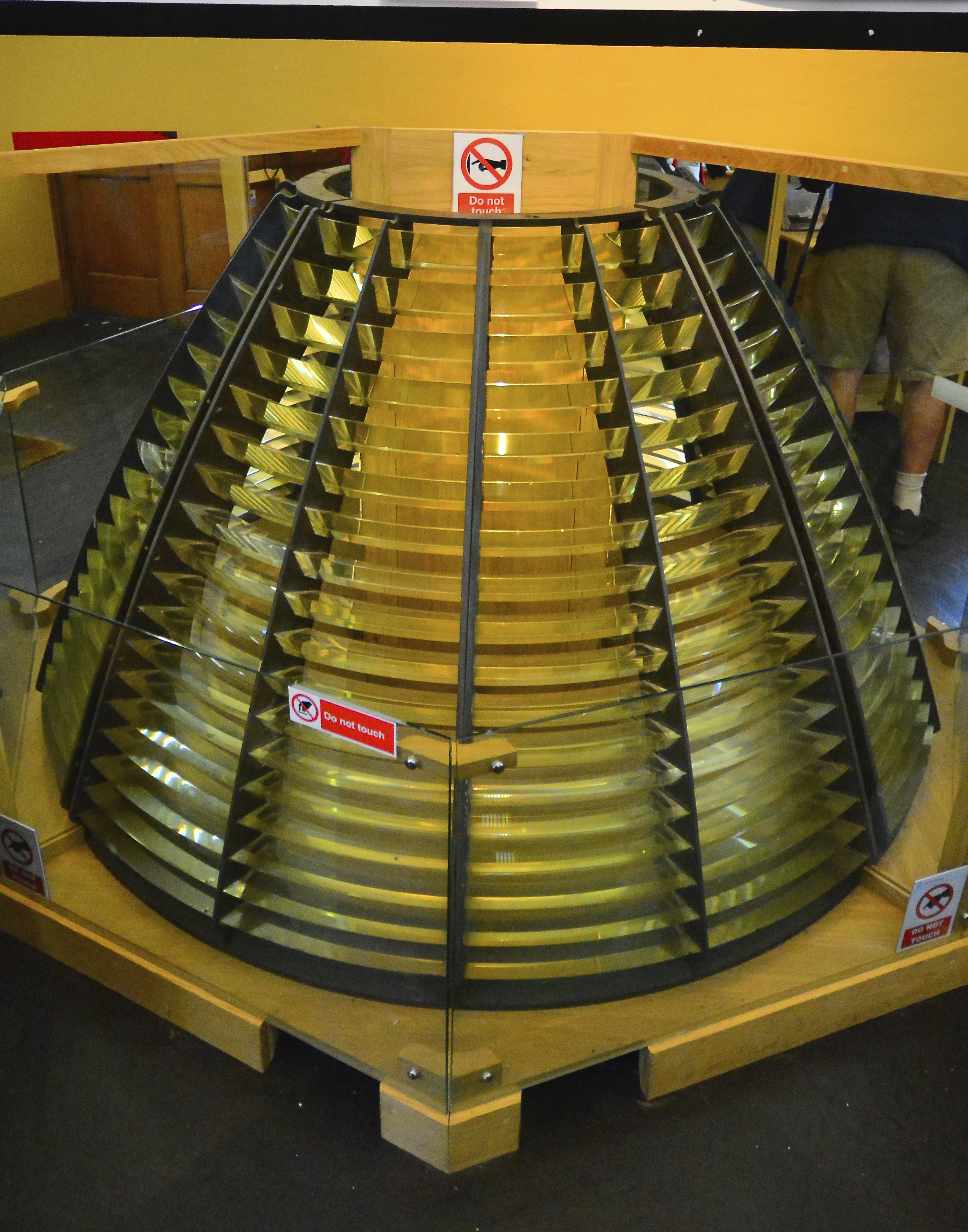 2014: the upper section of the old fixed optic, removed to make way for the new revolving lamp, is displayed at the foot of the tower.